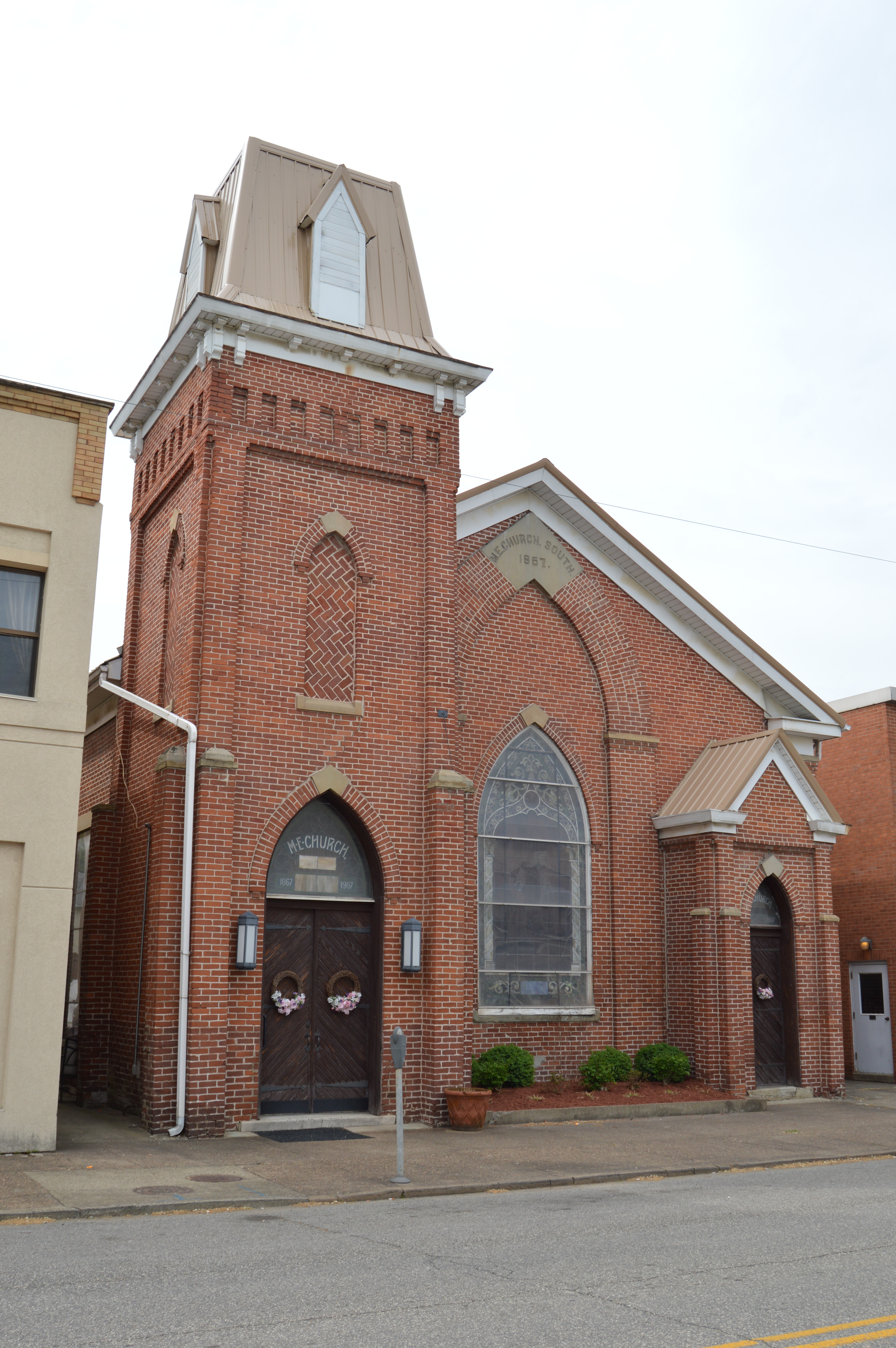 Front of the Catlettsburg First Methodist Church, located at 2712 Louisa Street in Catlettsburg, Kentucky, United States. Built in 1867, it is listed on the National Register of Historic Places.